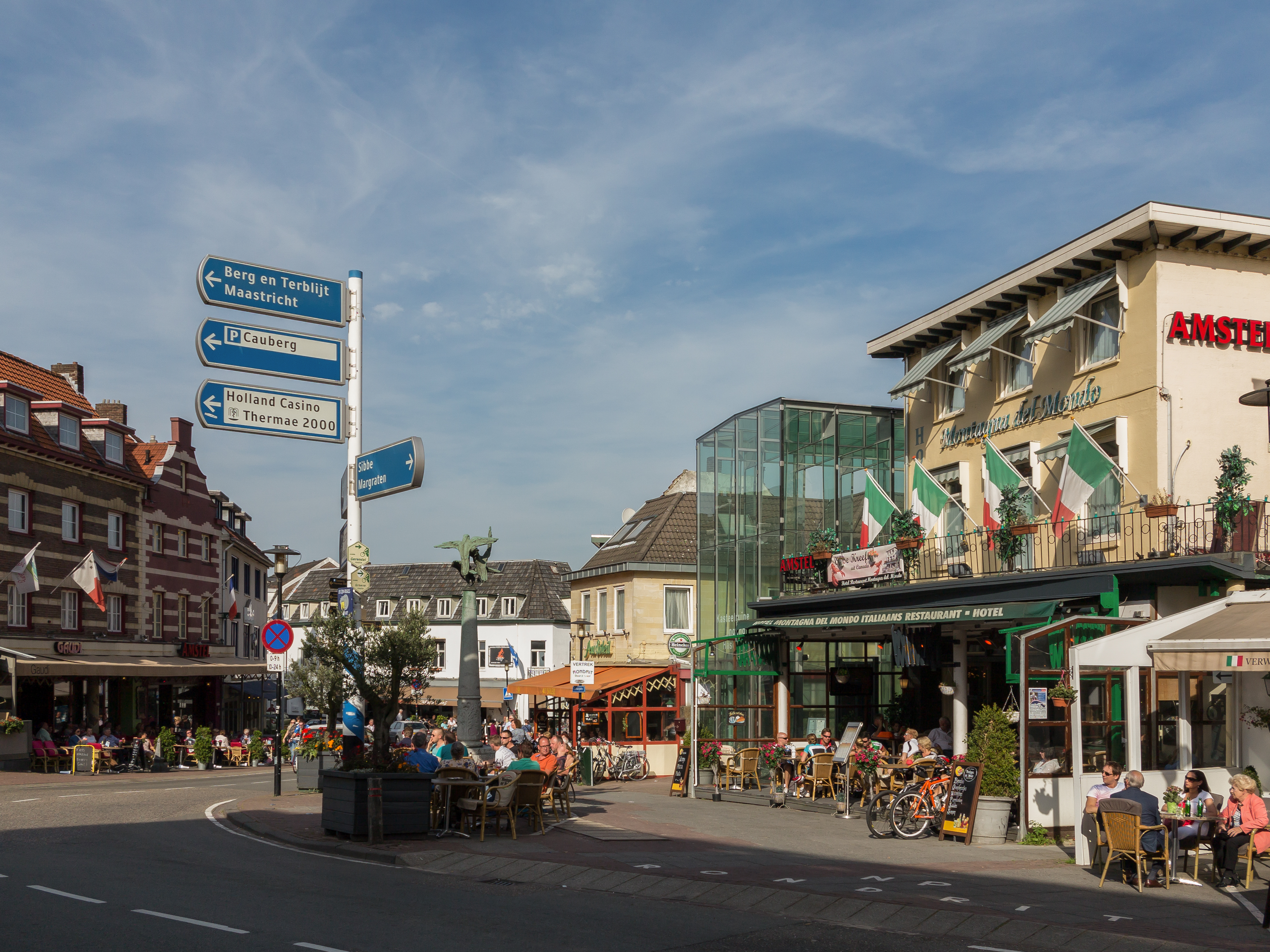 Valkenburg, view to a street:de Cauberg-de Dalhemerweg-de Wilhelminaweg